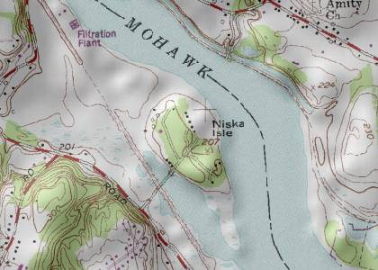 Part of the United States Geographical Survey map USGS Niskayuna quad showing Niska Isle in Niskayuna, New York along the Mohawk River.